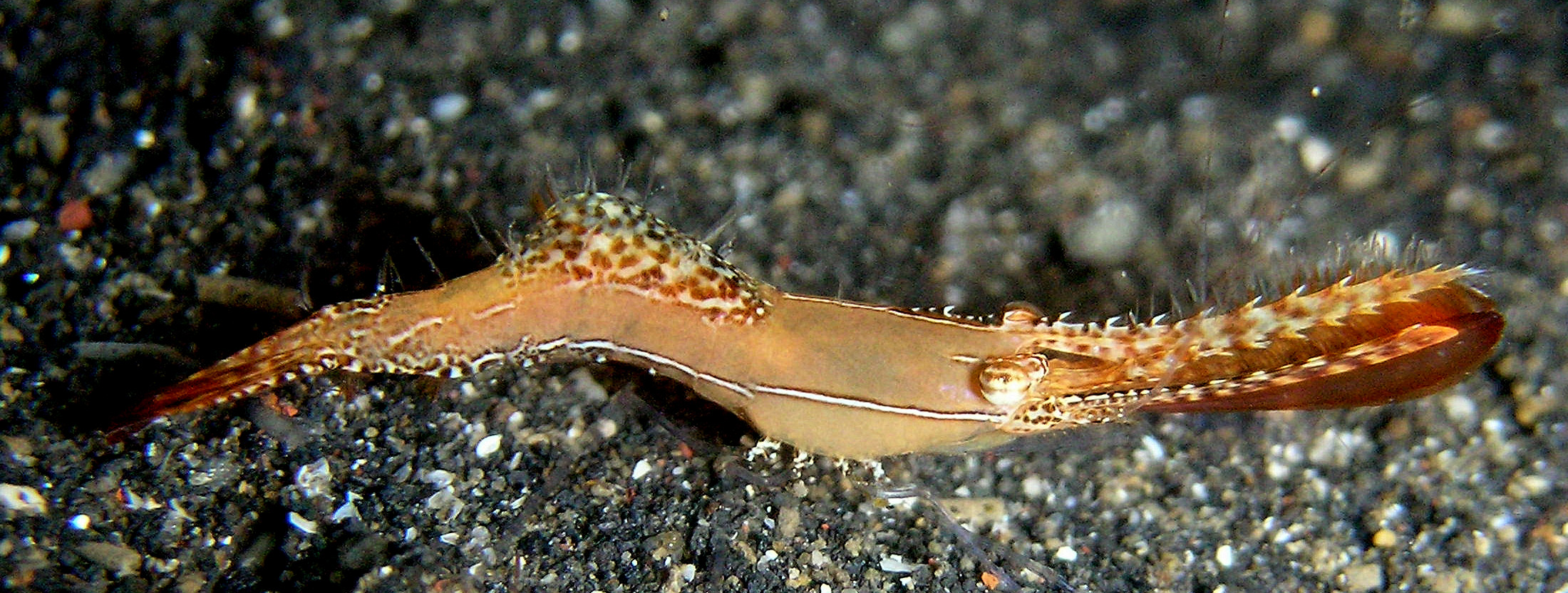 Leander plumosus